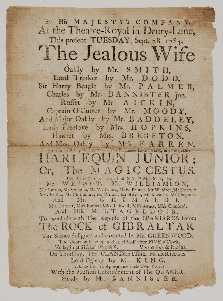 Playbill of Drury Lane Theatre, Tuesday, Sept. 28 1784, announcing The jealous wife &c.; edges damaged. Soiled; Jealous wife; Harlequin junior; or, The magic cestus; Repulse of the Spaniards before the rock of Gibraltar; Clandestine marriage; Quaker; [Playbill of Drury Lane Theatre, Tuesday, Sept. 28 1784, announcing The jealous wife &c.]